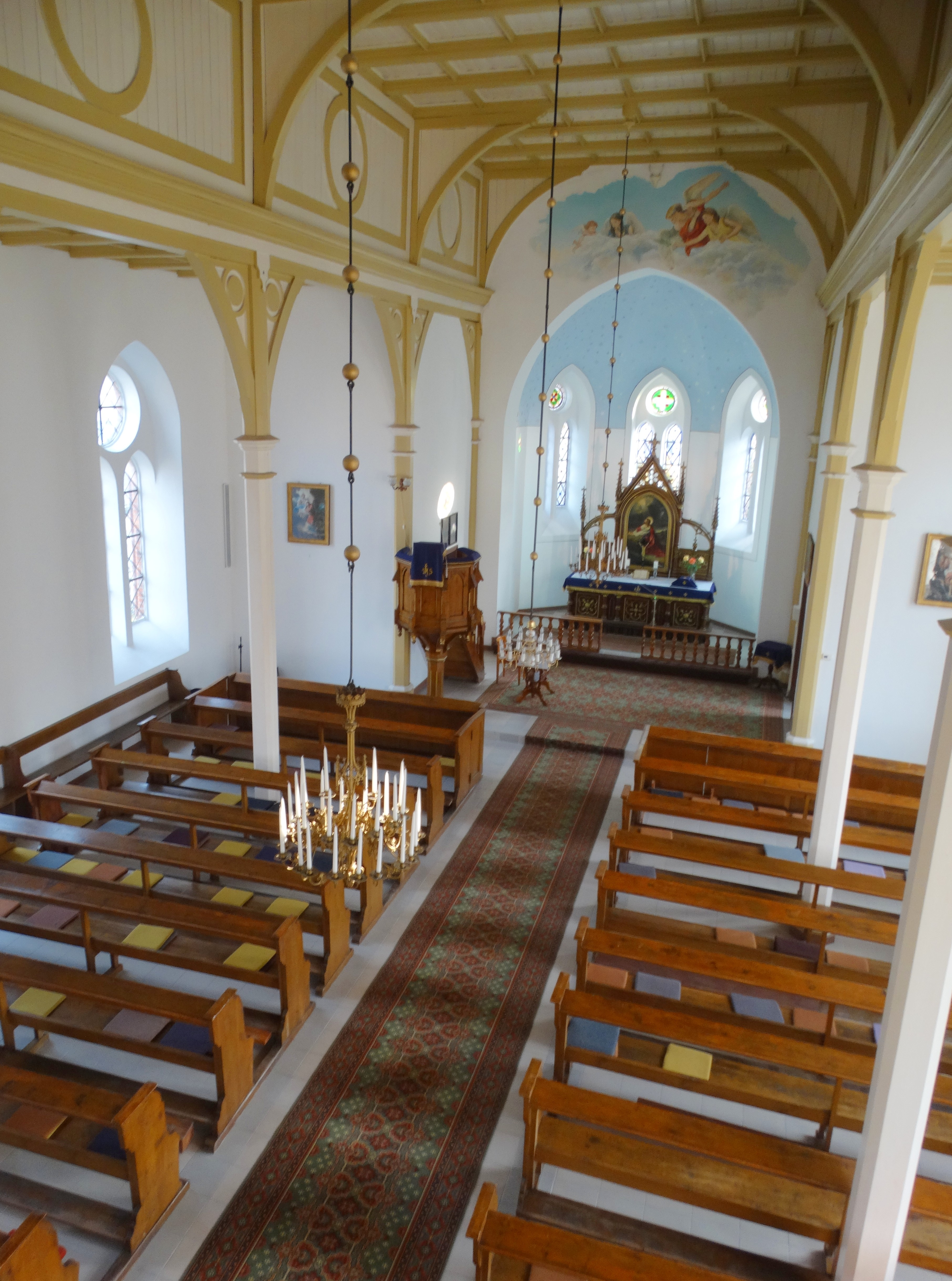 Lutheran church, interior, Kretinga, Lithuania